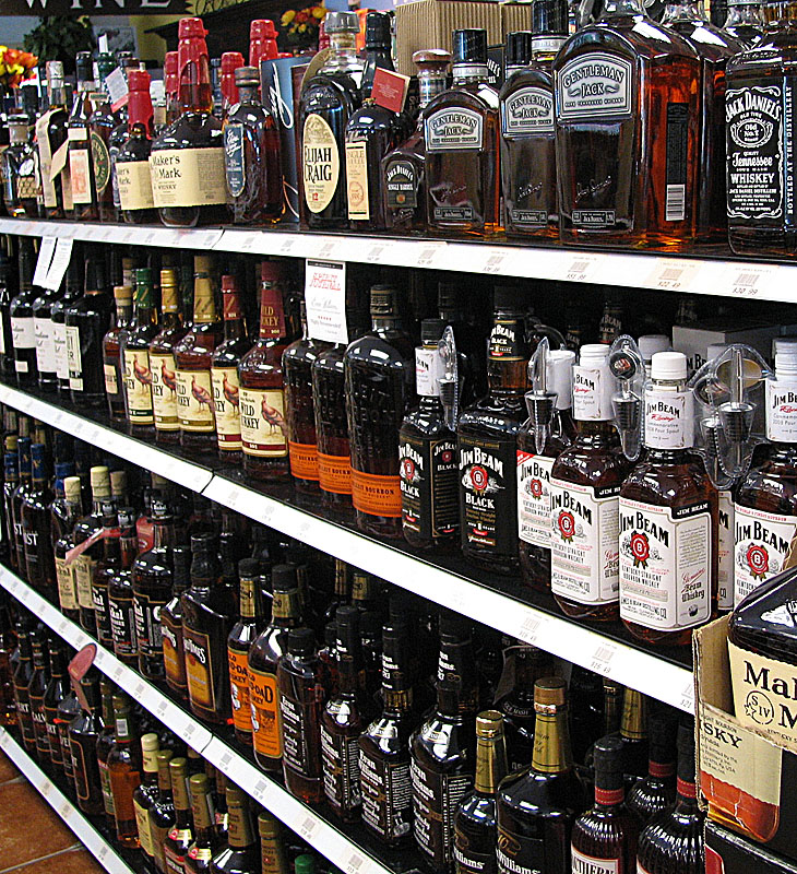 Bourbon whiskeys offered at a liquor store in Decatur, Georgia, United States